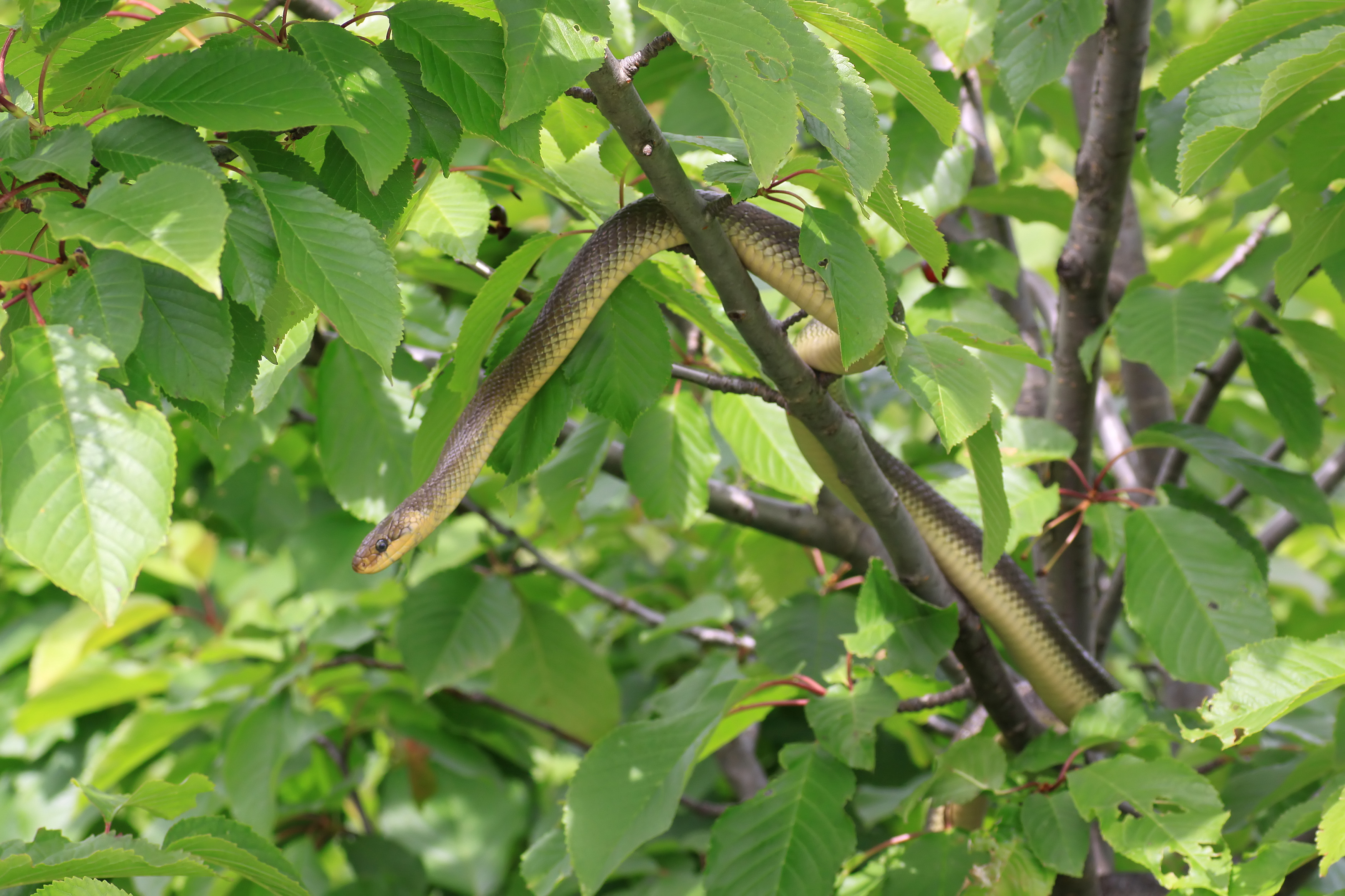 Zamenis longissimus on a tree. Photographed in Mödling (Lower Austria).